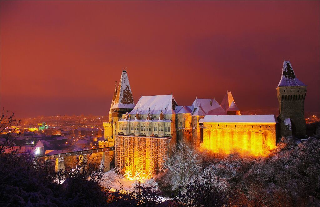 Castelul Corvinilor din Hunedoara